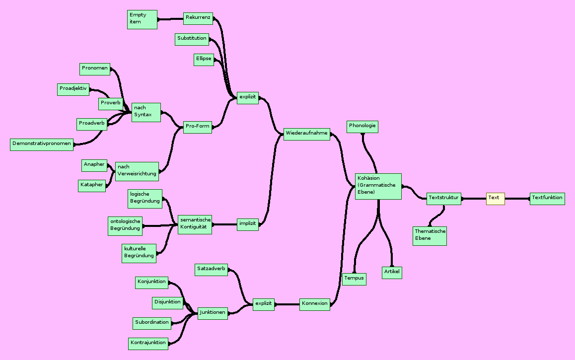 linguistics : cohesionial structures in the german language